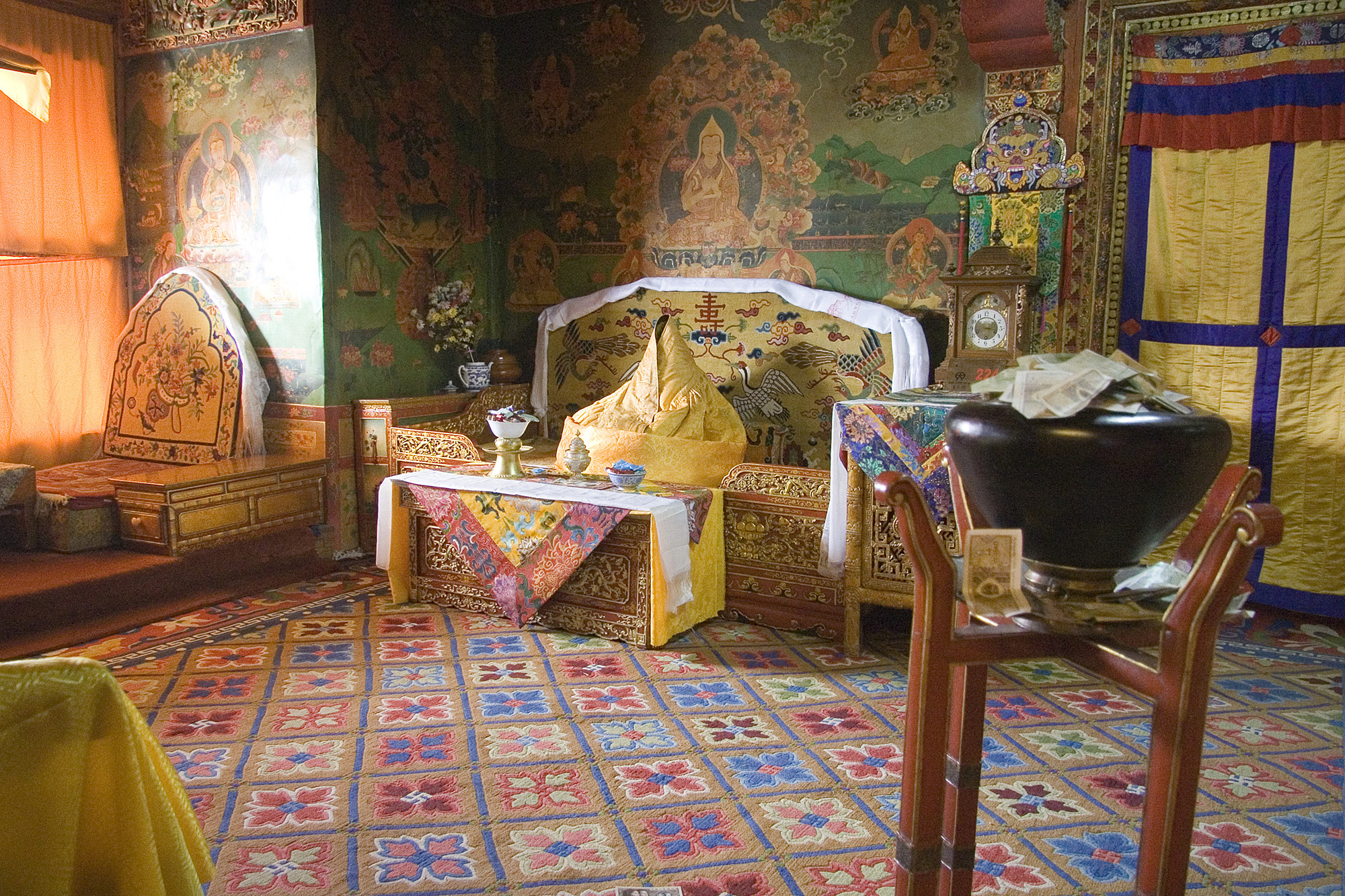 Inside Potala Palace, the Dalai Lama former residence.